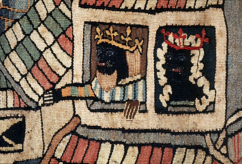 Wild Men and Moors, Detail (1/12), Warp: linen Wefts: wool; tapestry weave, 100 x 490 cm